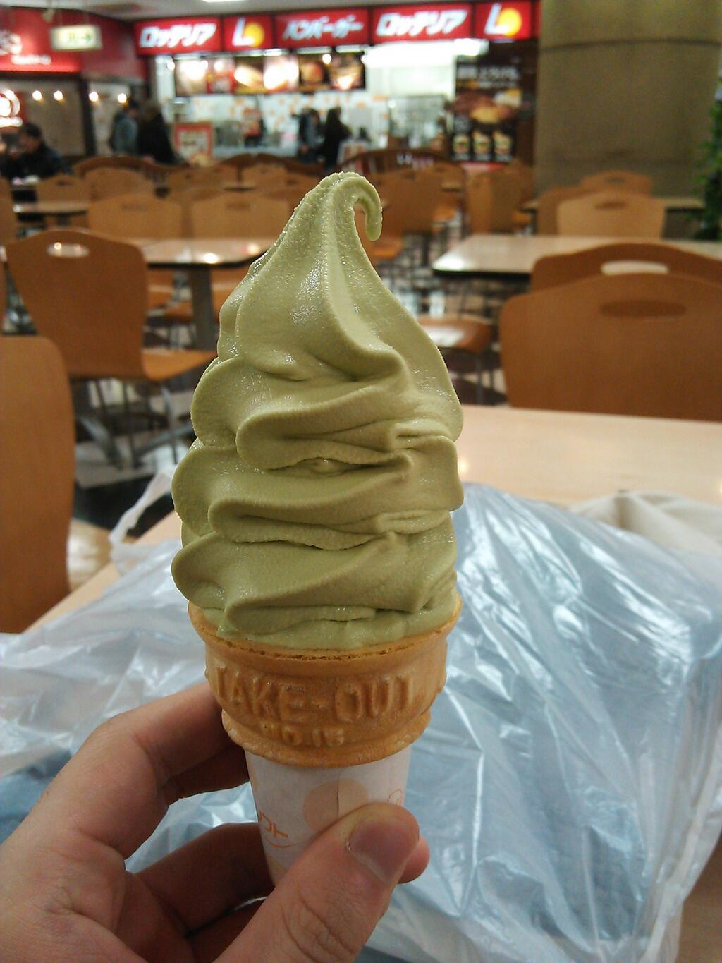 GreenSoft. It is green tea ice cream. It was invited by Gyokurin'en which the Japanese tea maketing company of Wakayama city,Japan. Shooting plase is Izumiya where a department store in Wakayama city.